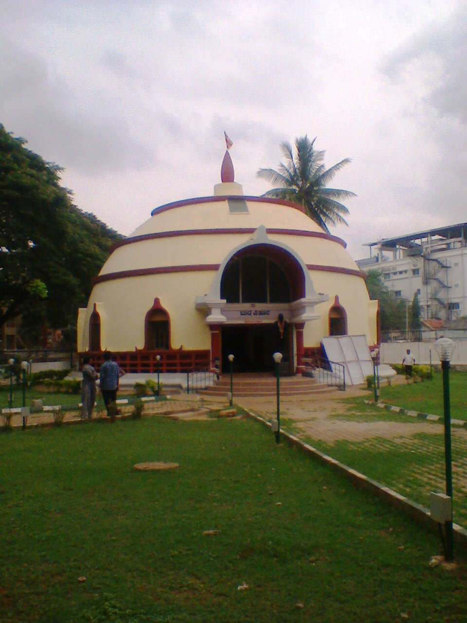 Chamarajapuram, Mysore, India.